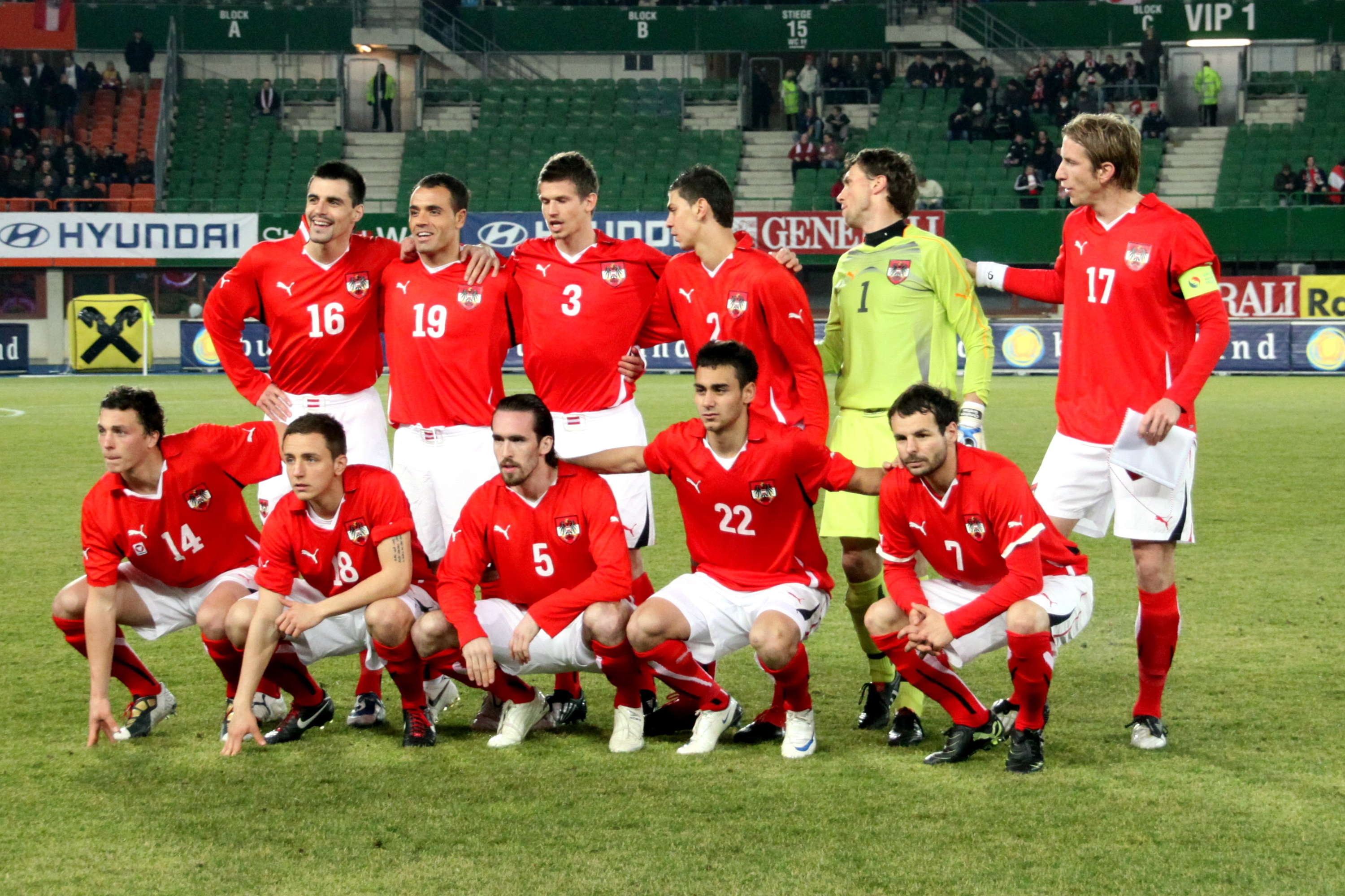 Austria national football team against Denmark